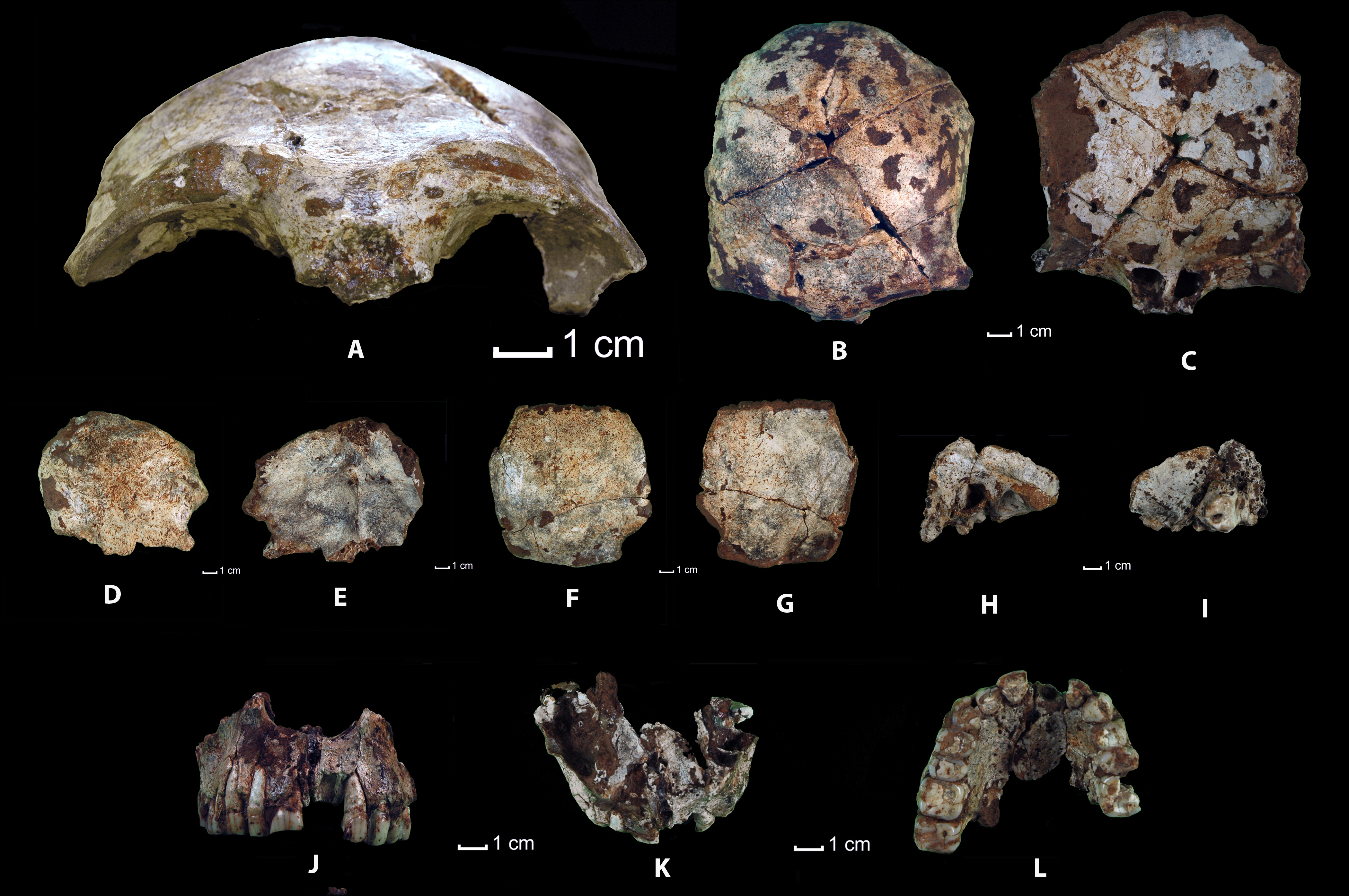 Human fossil remains designated as TPL 1. Elements: (A) frontal bone in norma facialis; (B) in norma verticalis; (C) in norma basilaris; (D) occipital bone in norma verticalis; (E) occipital bone in norma basilaris; (F) right parietal bone in norma verticalis; (G) right parietal bone in norma basilaris; (H) left temporal bone with partial mastoid in norma lateralis, external; (I) left temporal bone with partial mastoid in norma lateralis, internal; (J) maxillae in norma facialis; (K) maxillae in norma verticalis; (L) maxillae in norma basilaris.